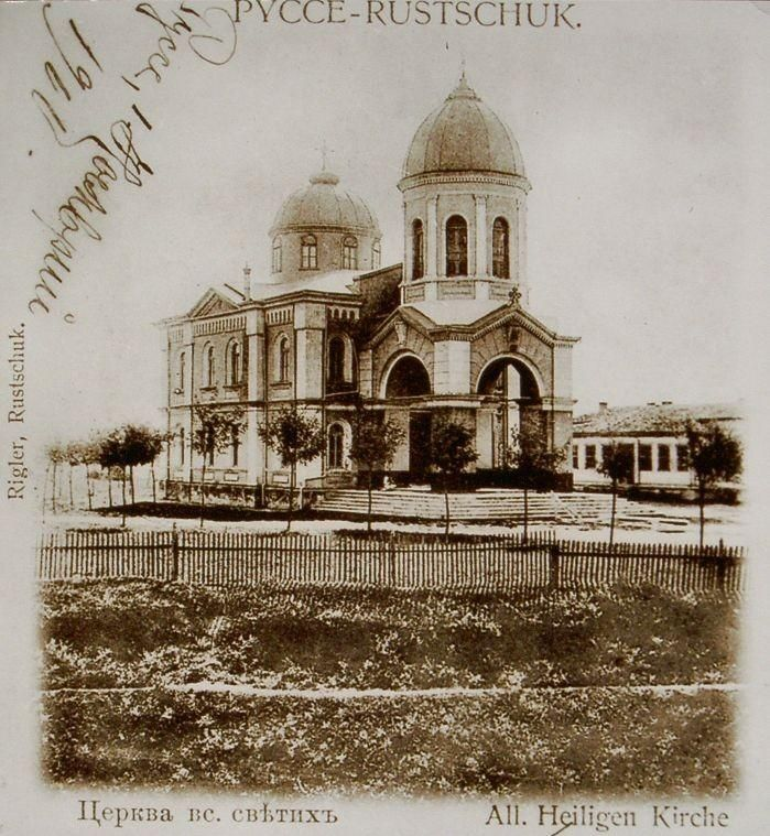 The old church 'Vseh Svjatih'.